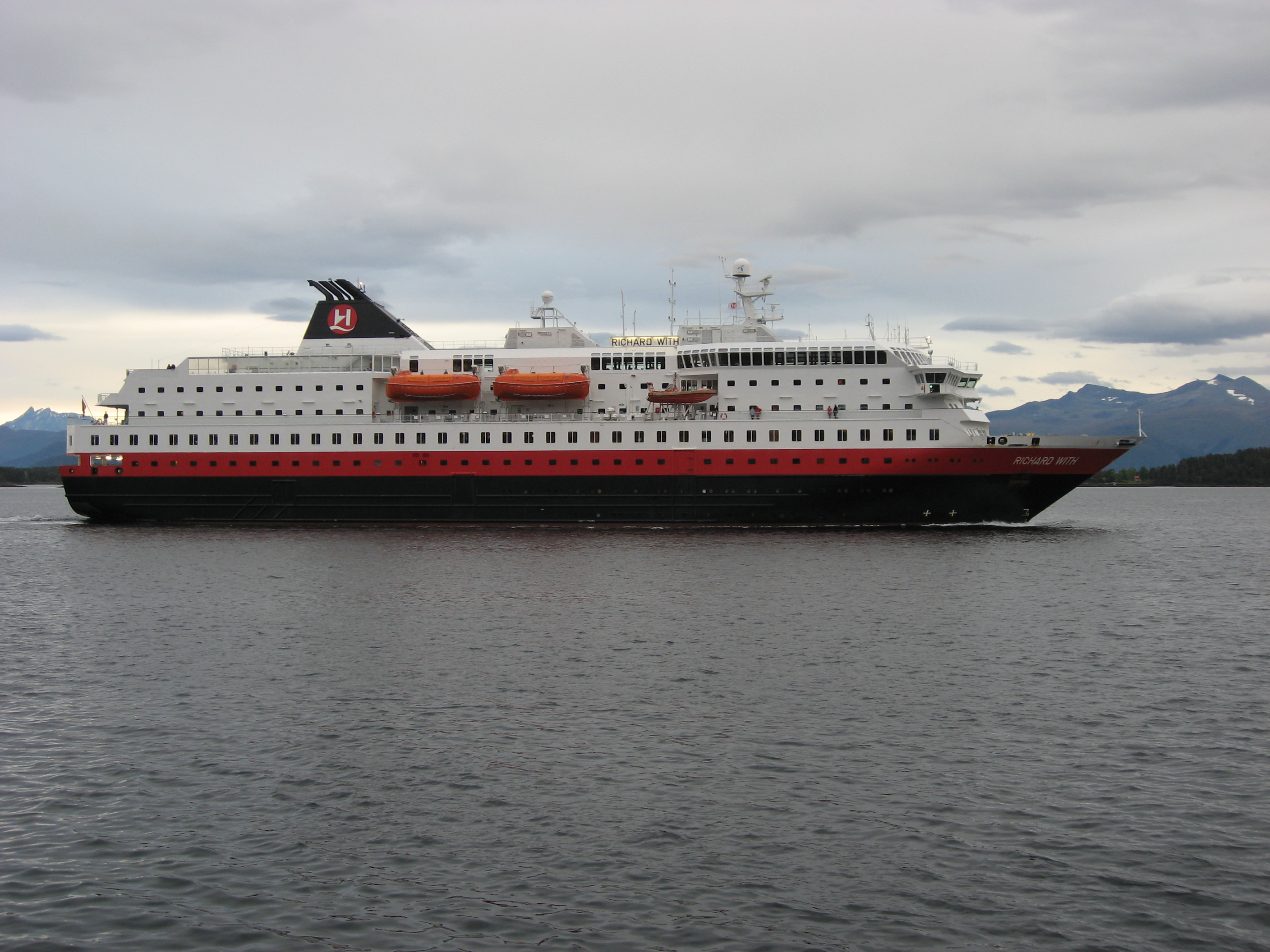 Norwegian coastal express ship (Hurtigruten) MS Richard With in Molde